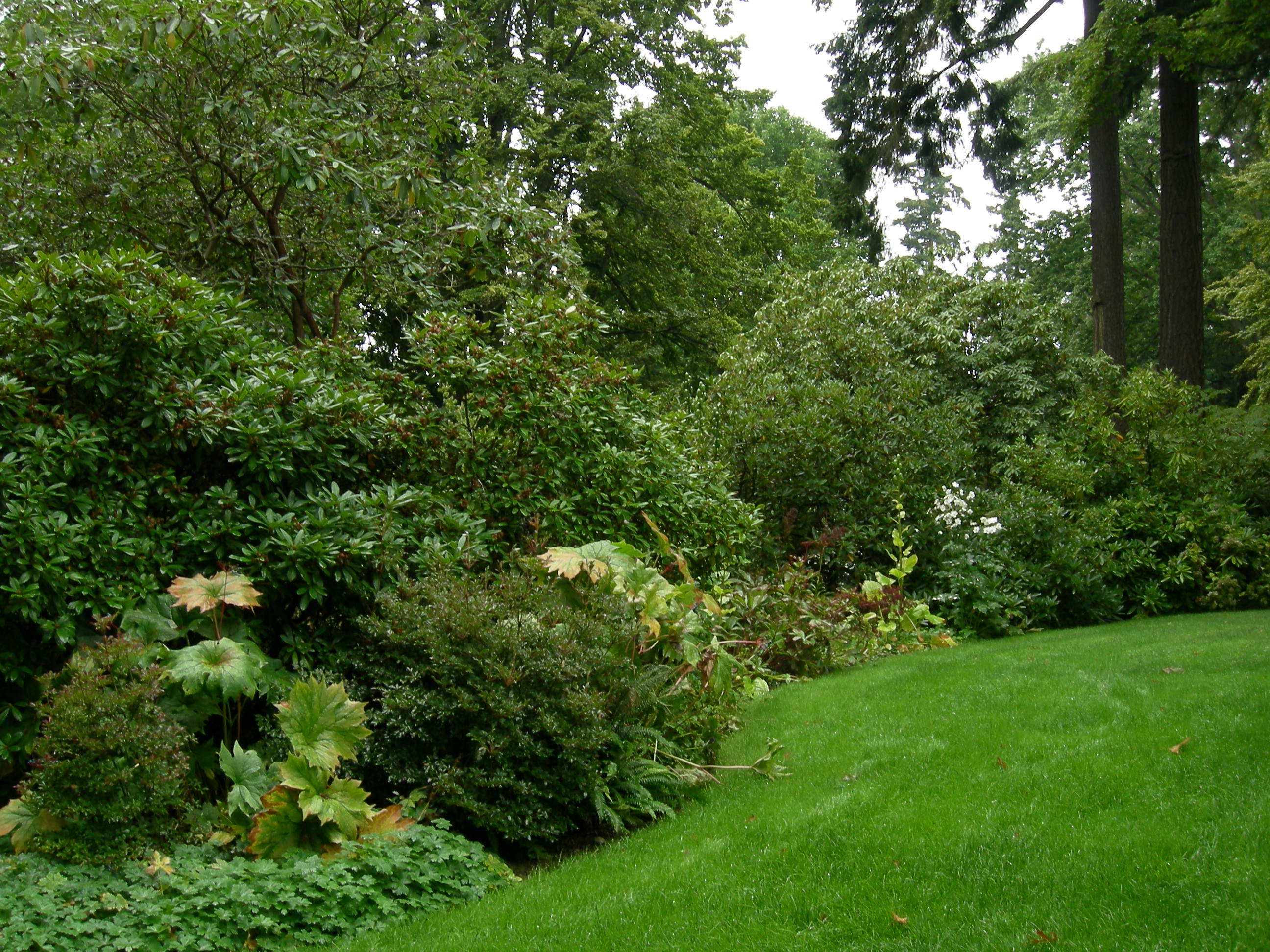 The 10-acre Dunn Gardens, 13533 Northshire Rd. NW. in a rather suburban part of northwest Seattle, Washington, USA were designed by James Frederick Dawson of the Olmsted firm. They remain in the hands of the Dunn family, and are listed in the National Register of Historic Places, ID #94001435.